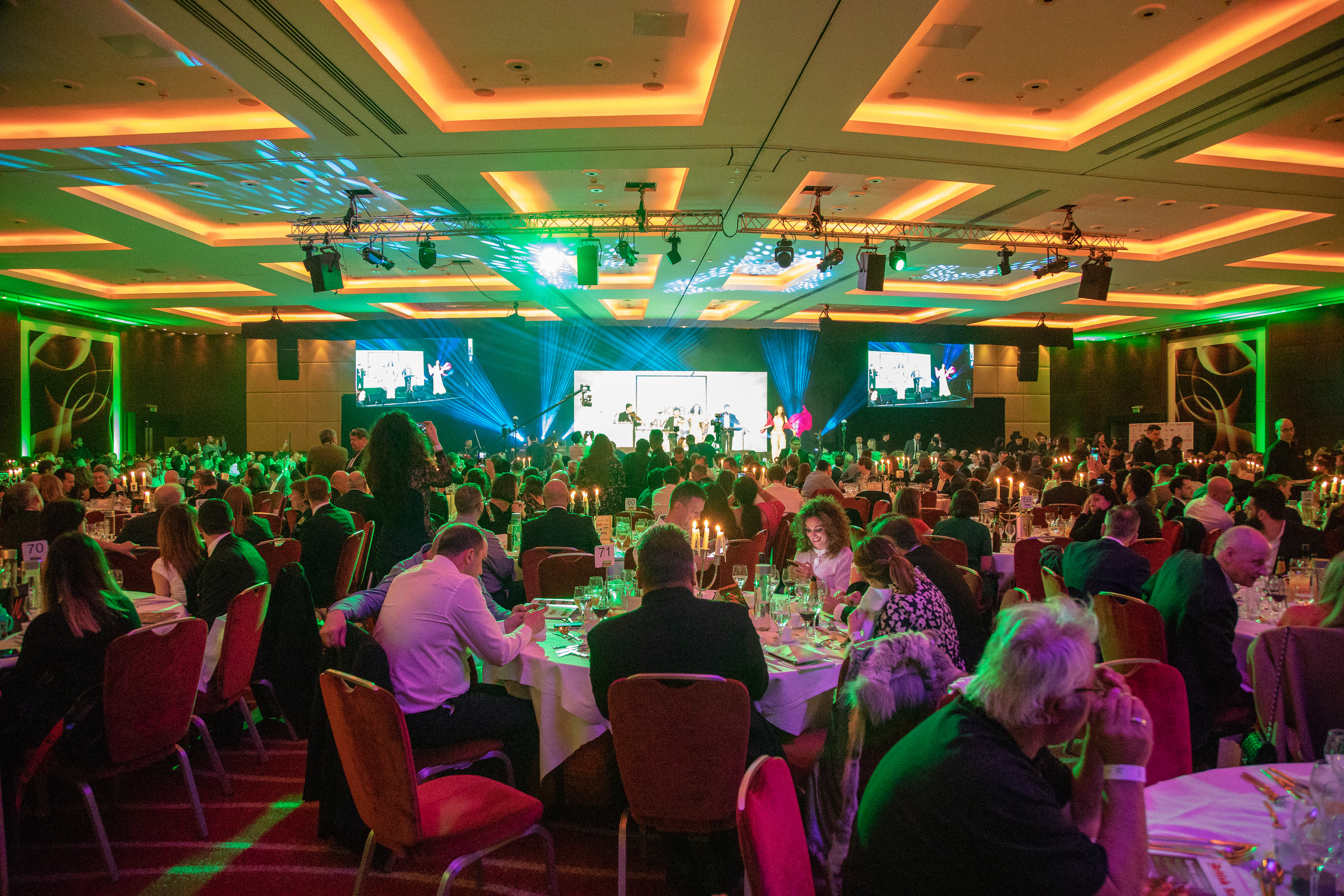 Inside the Westminster Park Plaza hotel during the British Kebab Awards 2019